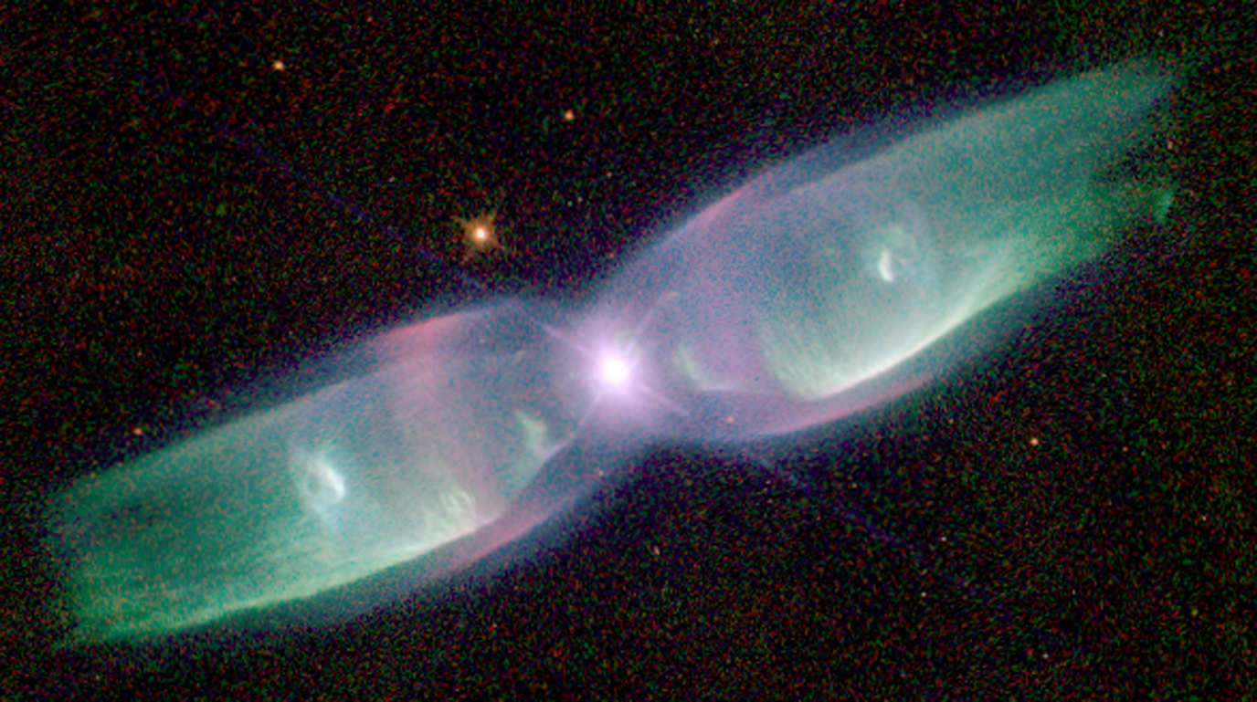 M2-9 is a striking example of a "butterfly" or a bipolar planetary nebula. Another more revealing name might be the "Twin Jet Nebula." If the nebula is sliced across the star, each side of it appears much like a pair of exhausts from jet engines. Indeed, because of the nebula's shape and the measured velocity of the gas, in excess of 200 miles per second, astronomers believe that the description as a super-super-sonic jet exhaust is quite apt. This is much the same process that takes place in a jet engine: The burning and expanding gases are deflected by the engine walls through a nozzle to form long, collimated jets of hot air at high speeds. M2-9 is 2,100 light-years away in the constellation Ophiucus. The observation was taken Aug. 2, 1997 by the Hubble telescope's Wide Field and Planetary Camera 2. In this image, neutral oxygen is shown in red, once-ionized nitrogen in green, and twice-ionized oxygen in blue.